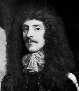 William Craven, 1st Earl of Craven (1608-1697)